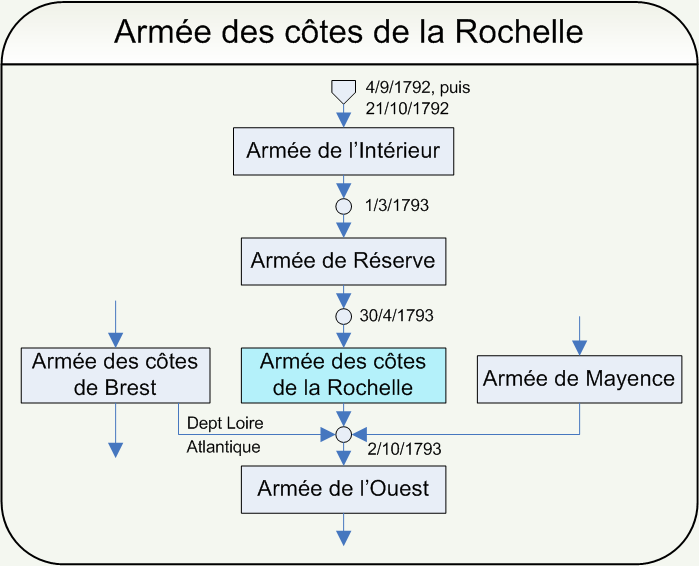 Chronology of the "Armée des côtes de La Rochelle" (Army of the French Revolution)